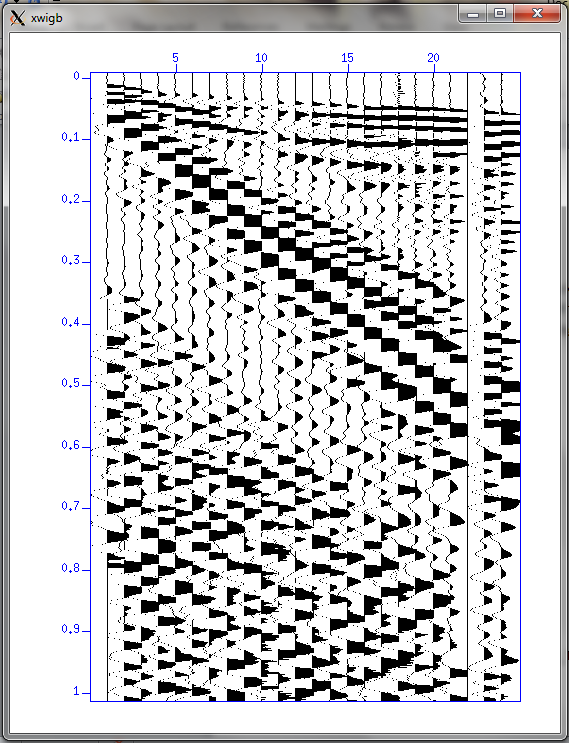 wiggle plot of seismic data